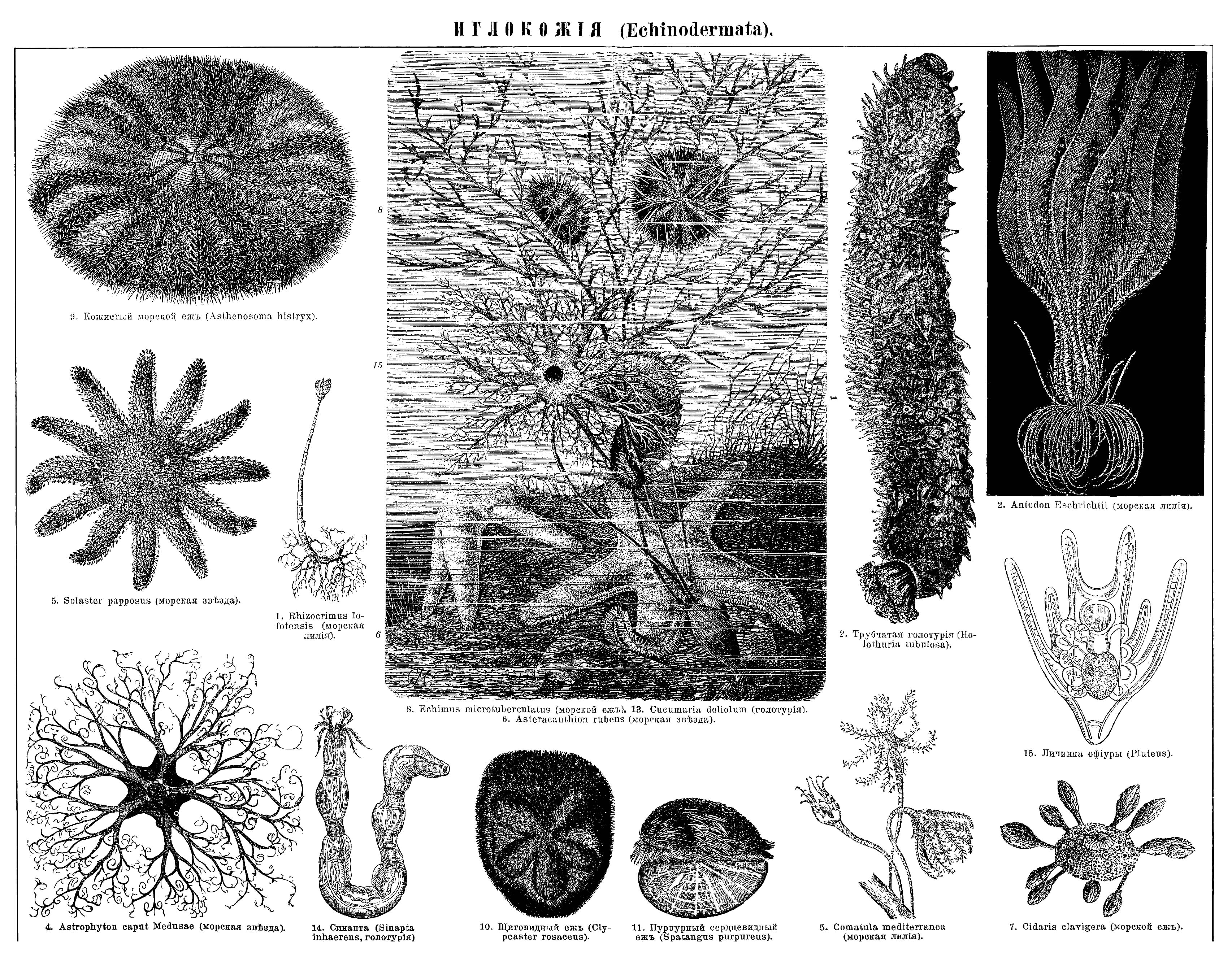 Illustration from Brockhaus and Efron Encyclopedic Dictionary (1890—1907)